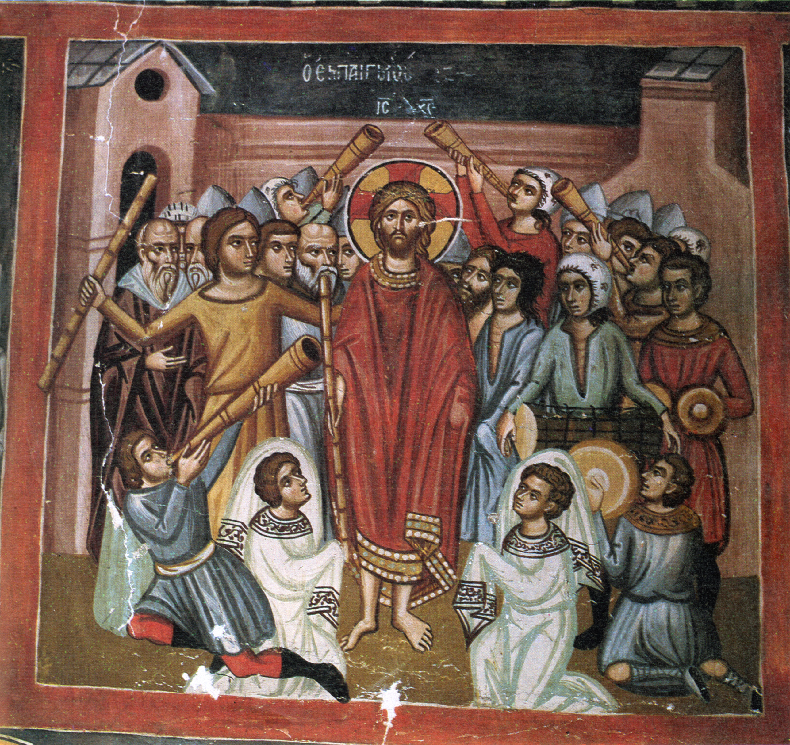 Fresko Mocking of Jesus Holy Cross Church in Platanissa, Cyprus